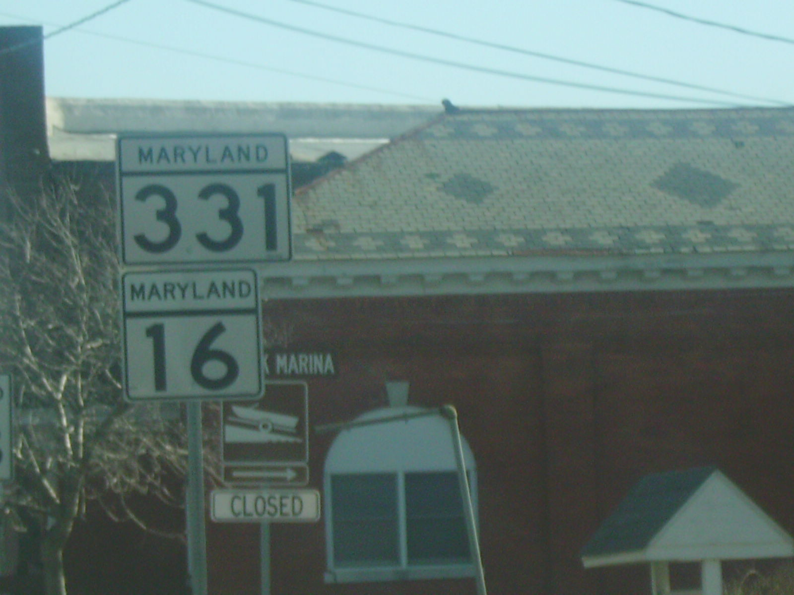 Shields for Maryland Route 16 and Maryland Route 331 in Preston, Maryland past north end of concurrency.